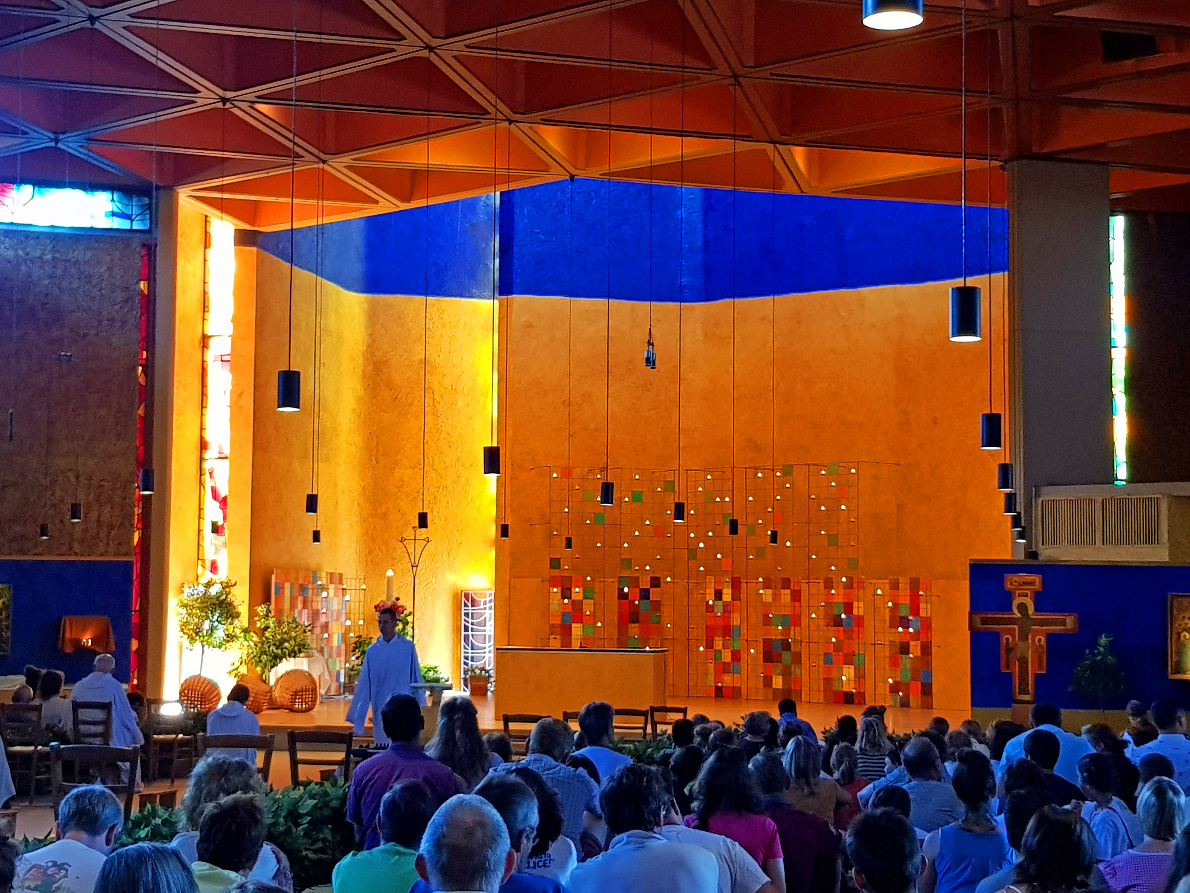 Taizé - Mittagsgebet in der Kirche der Versöhnung